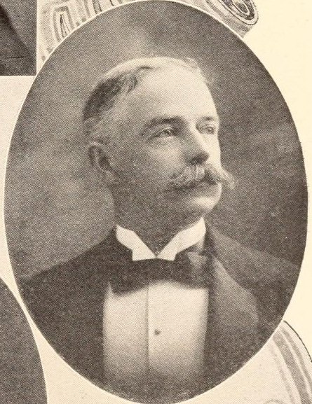 Portrait of New York state senator James B. McEwan Other information none